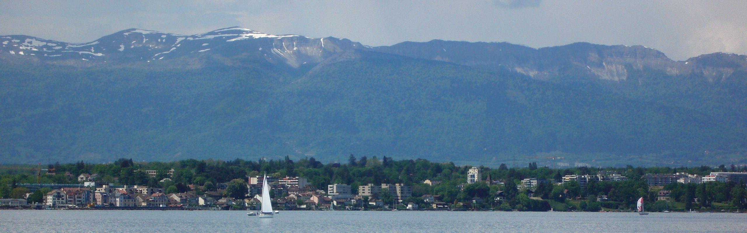 The shoreline of Versoix, Switzerland, picture taken from Lake Léman.